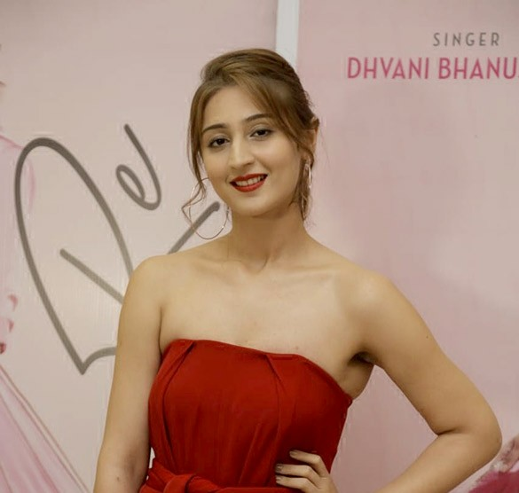 Dhvani Bhanushali at the launch of album Leja Re.